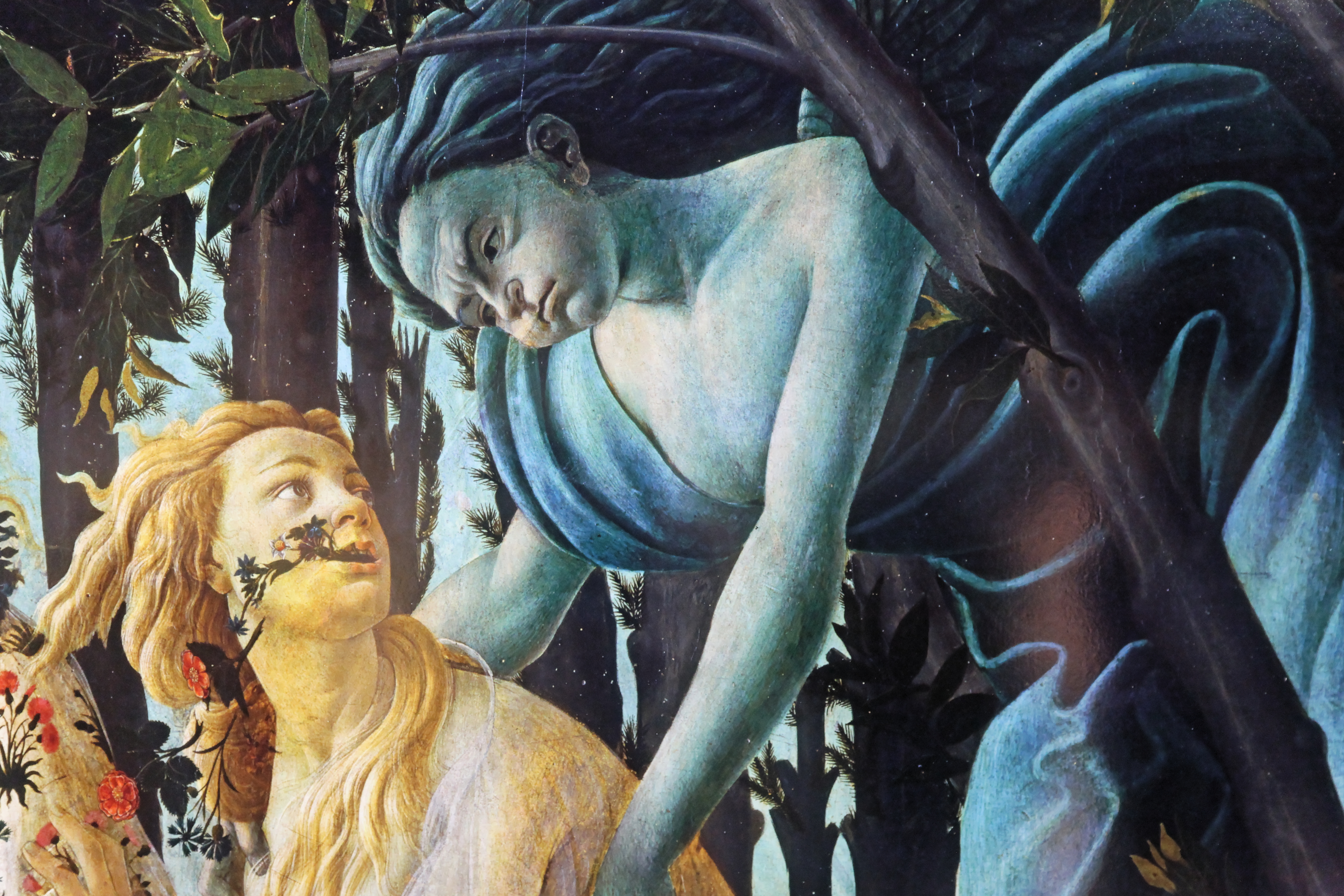 Primavera by Sandro Botticelli, "Der schöne Schein" exhibition of replicas of well-known artwork in the Gasometer in Oberhausen